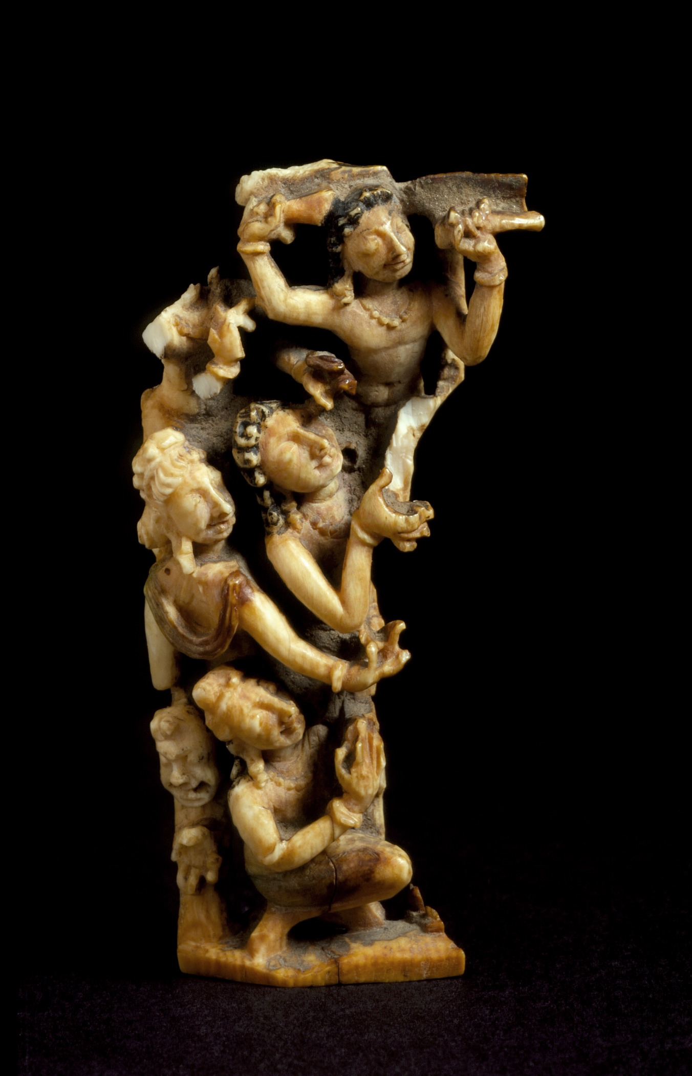 India, Jammu and Kashmir, Kashmir region, 8th century or earlier Sculpture Ivory with paint Gift of Corinne and Don Whitaker (M.83.218.4) South and Southeast Asian Art